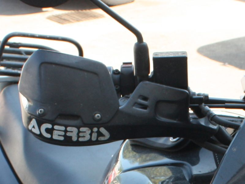 Hand guard, Handshields